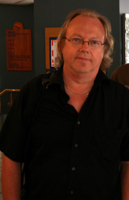 Swedish musician, singer and producer Lasse Lindbom